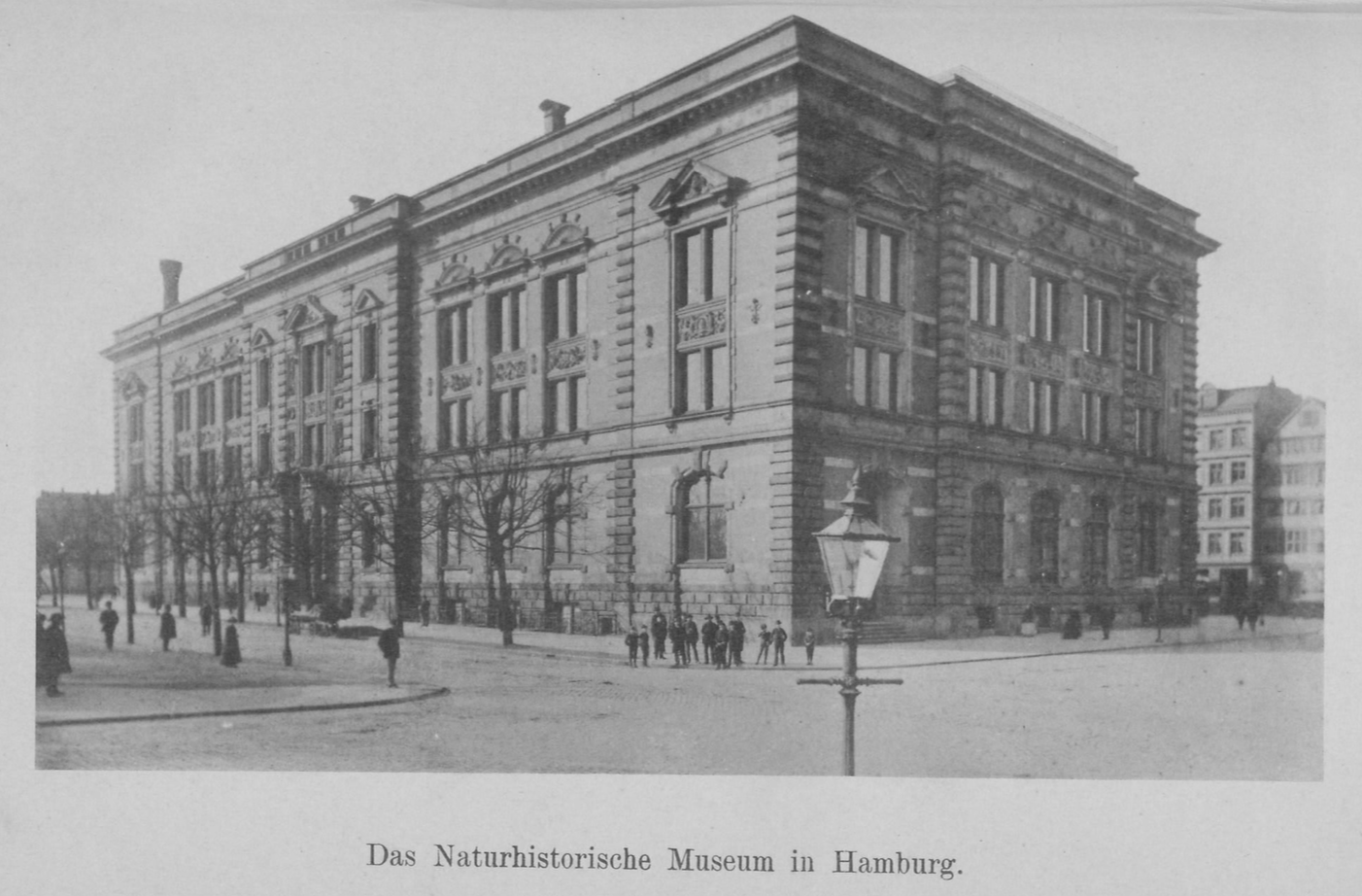 The building of the "Naturhistorisches Museum Hamburg" 1891